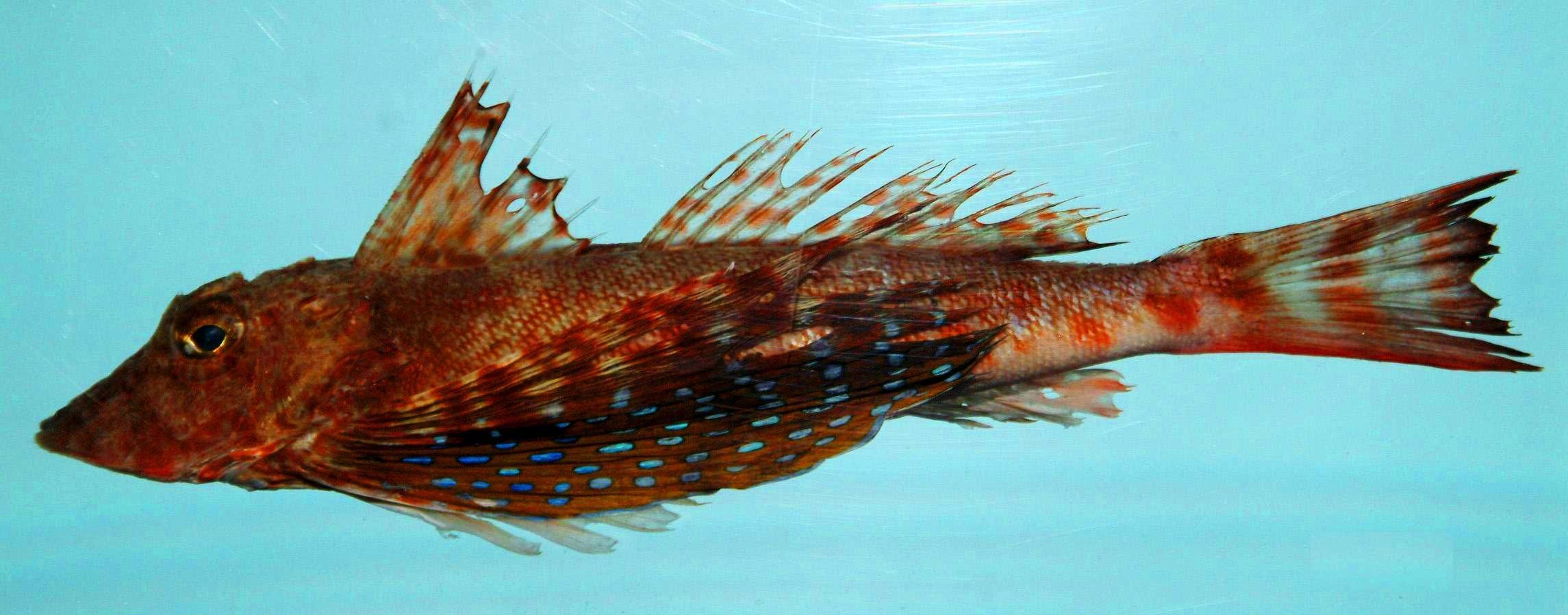 Bluespotted searobin ( Prionotus roseus )